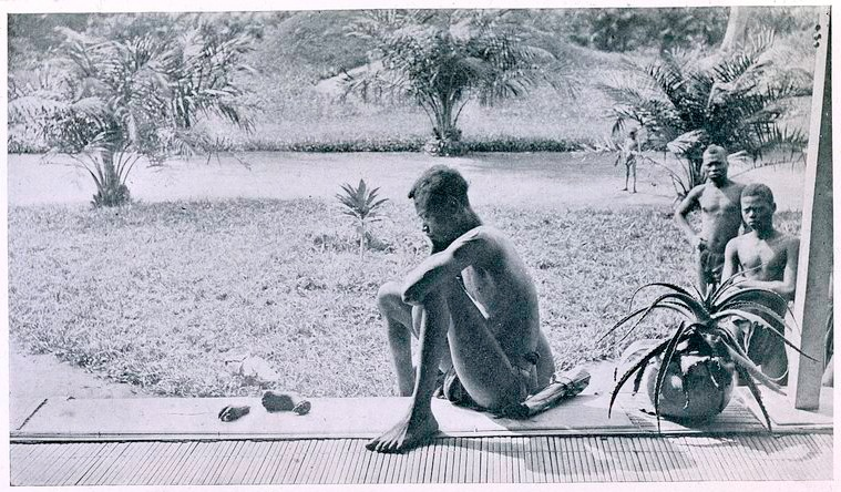 Original caption: "Foot and hand of child dismembered by soldiers, brought to missionaries by dazed father". (A father stares at the hand and foot of his five year-old daughter, which were severed as a punishment for having harvested too little caoutchouc/rubber.) In Belgian colonial Congo Free State (present day Democratic Republic of the Congo).